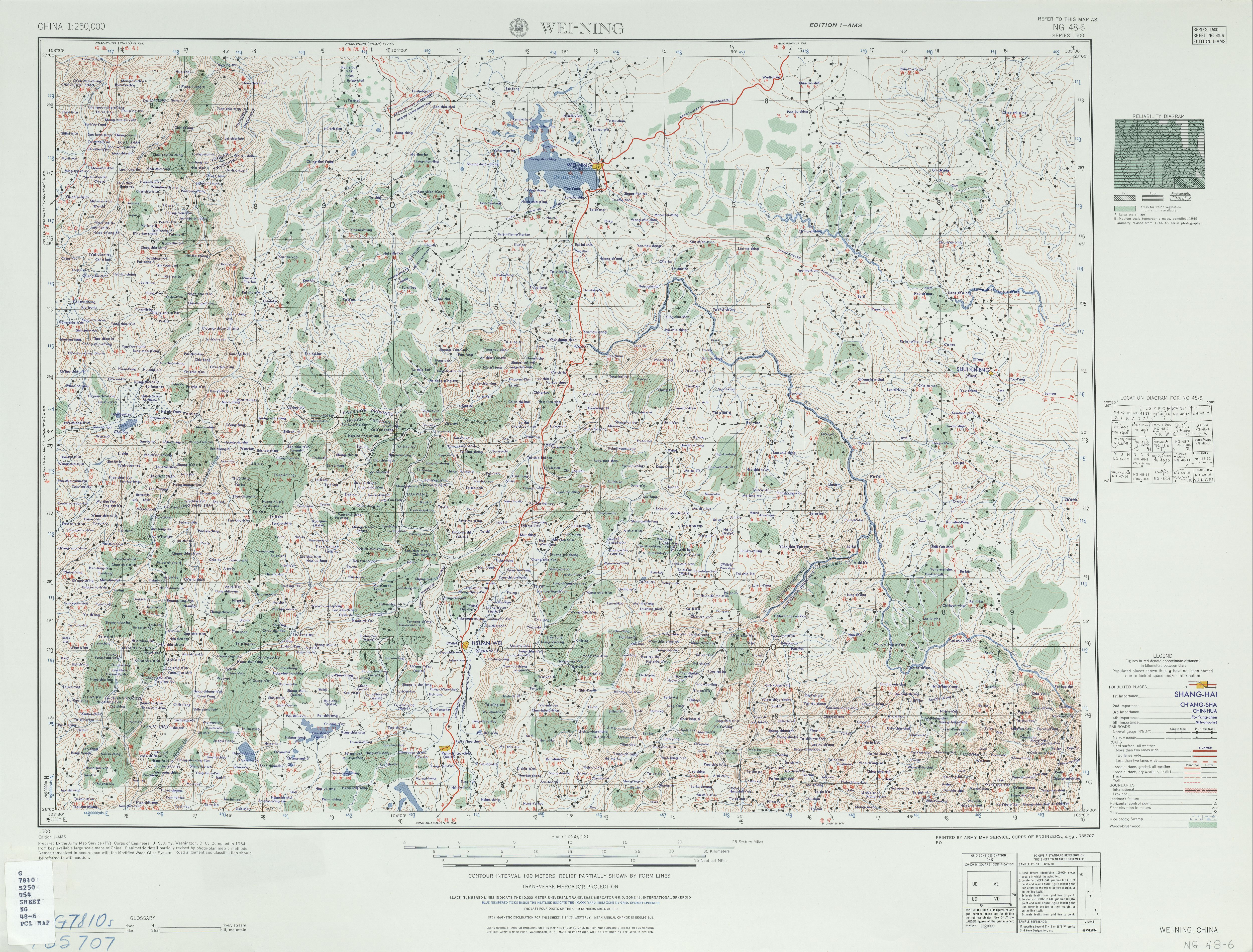 China AMS Topographic Maps